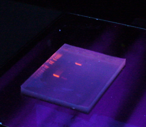 Agarose gel following Agarose gel electrophoresis on UV light box Gel from a research project on hepatitis B virus Regulatory genomics research group at the University of Otago [1]